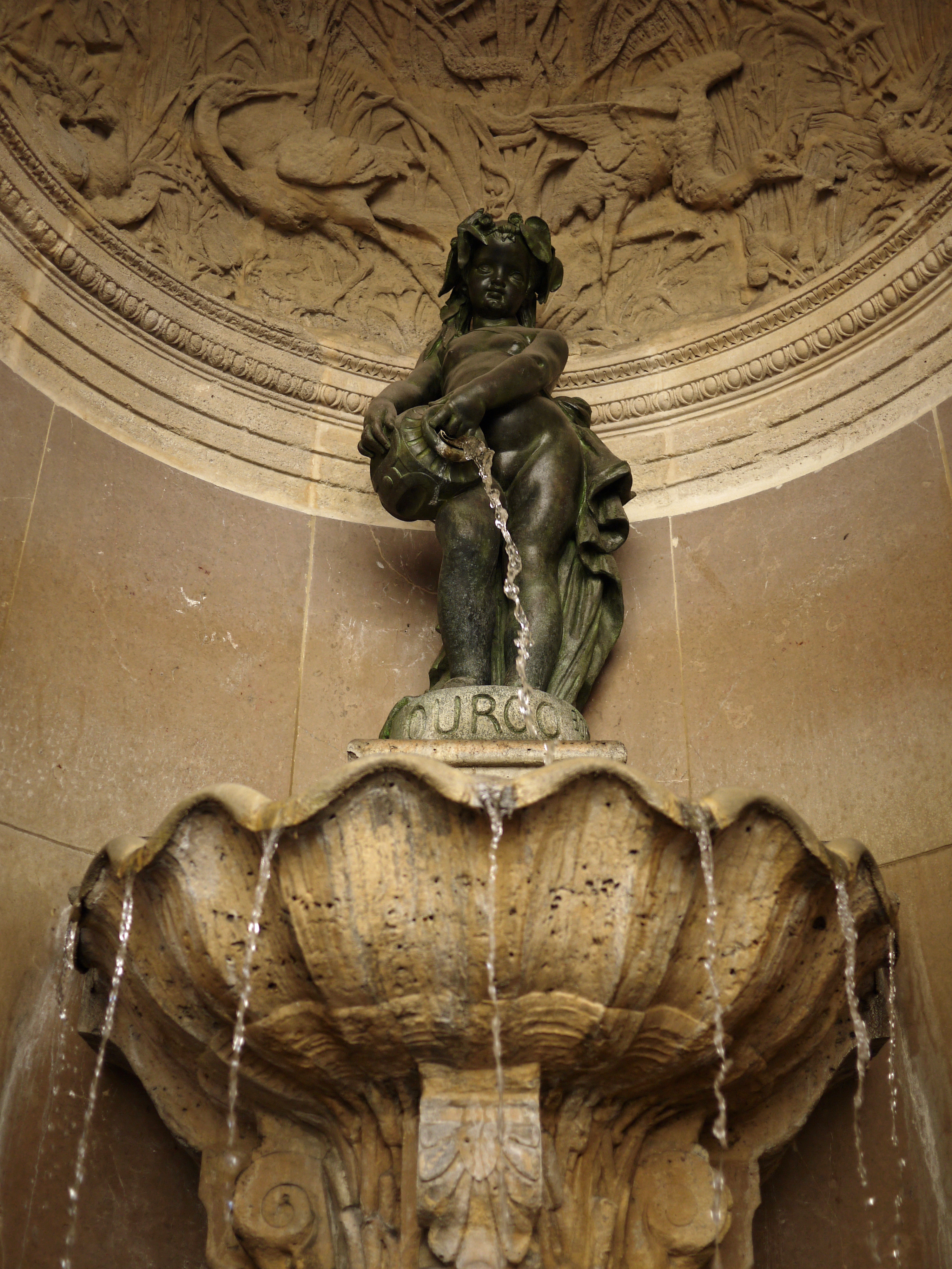 Fontaine de Joyeuse, Paris IVe arrondissement, France.